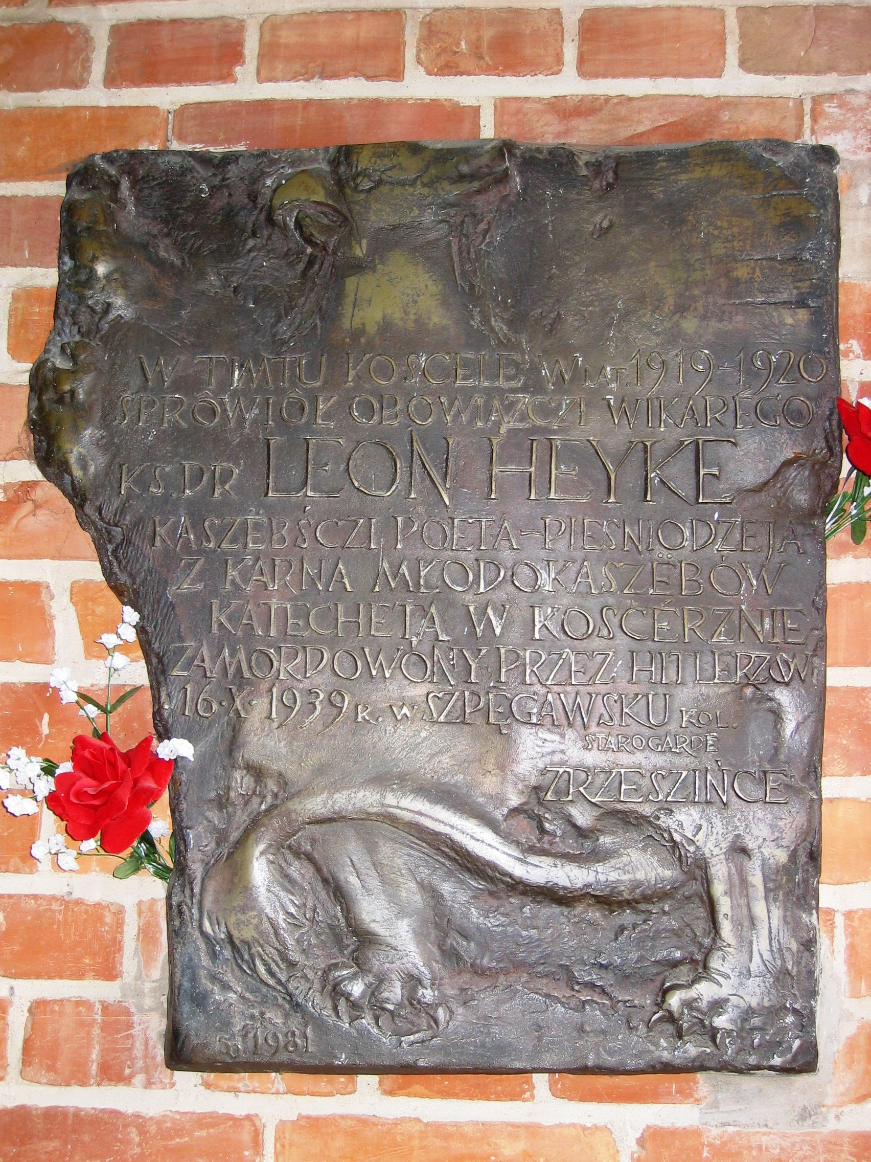 Poland, Wygoda Łączyńska, Church - Plaque commemorating Kashubian poet and priest Léòn Heyke Kaszëbsczi: Łątczińskô Wigòda - kòscół. Tôfla na wdôr ks. Léònowi Heyke.